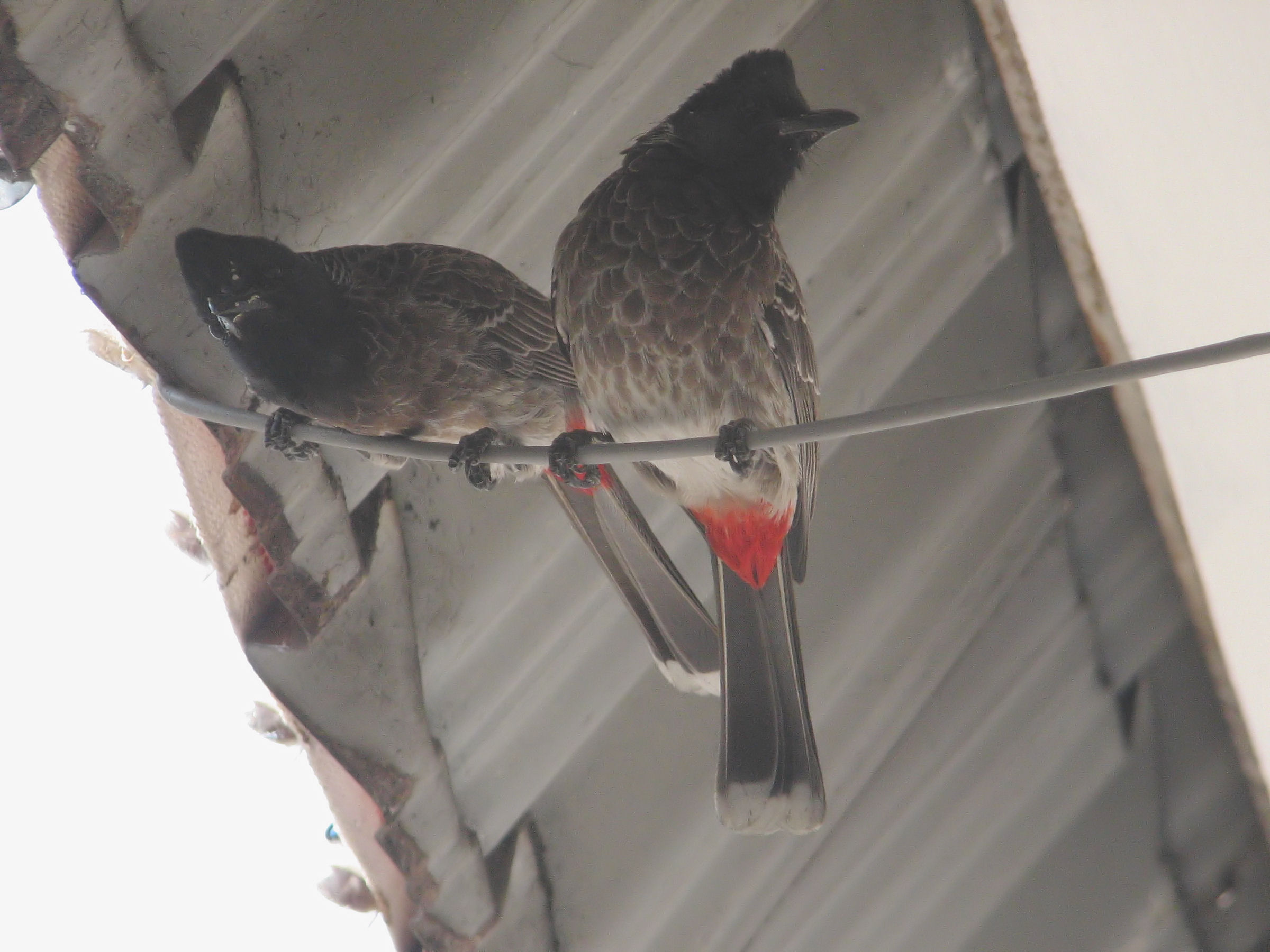 Red-vented Bulbuls (Pycnonotus cafer) taken in Kerala, India